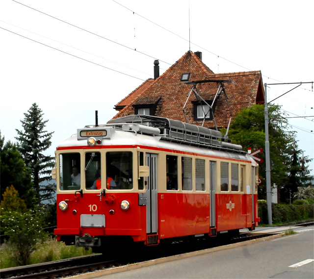 Forchbahn BDe 4/4 10 on 26 mei 2007 in the Alten Forchstrasse at Küsnacht.